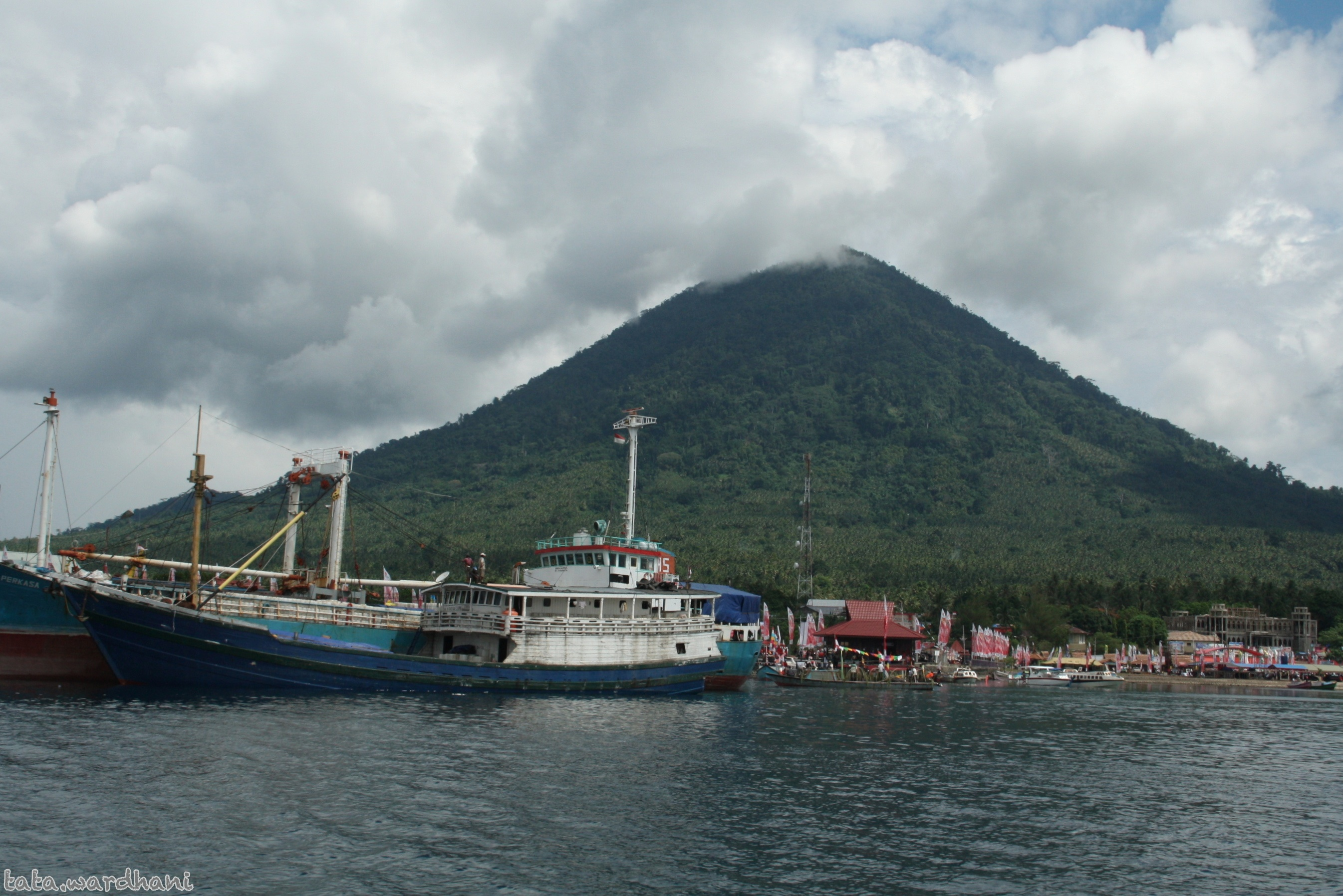 Jailolo is a bay located in West Halmahera Regency, North Maluku Province, Indonesia. Mollucas is so famous with its spices since thousand years ago, that's why this year festival take spices as its theme.